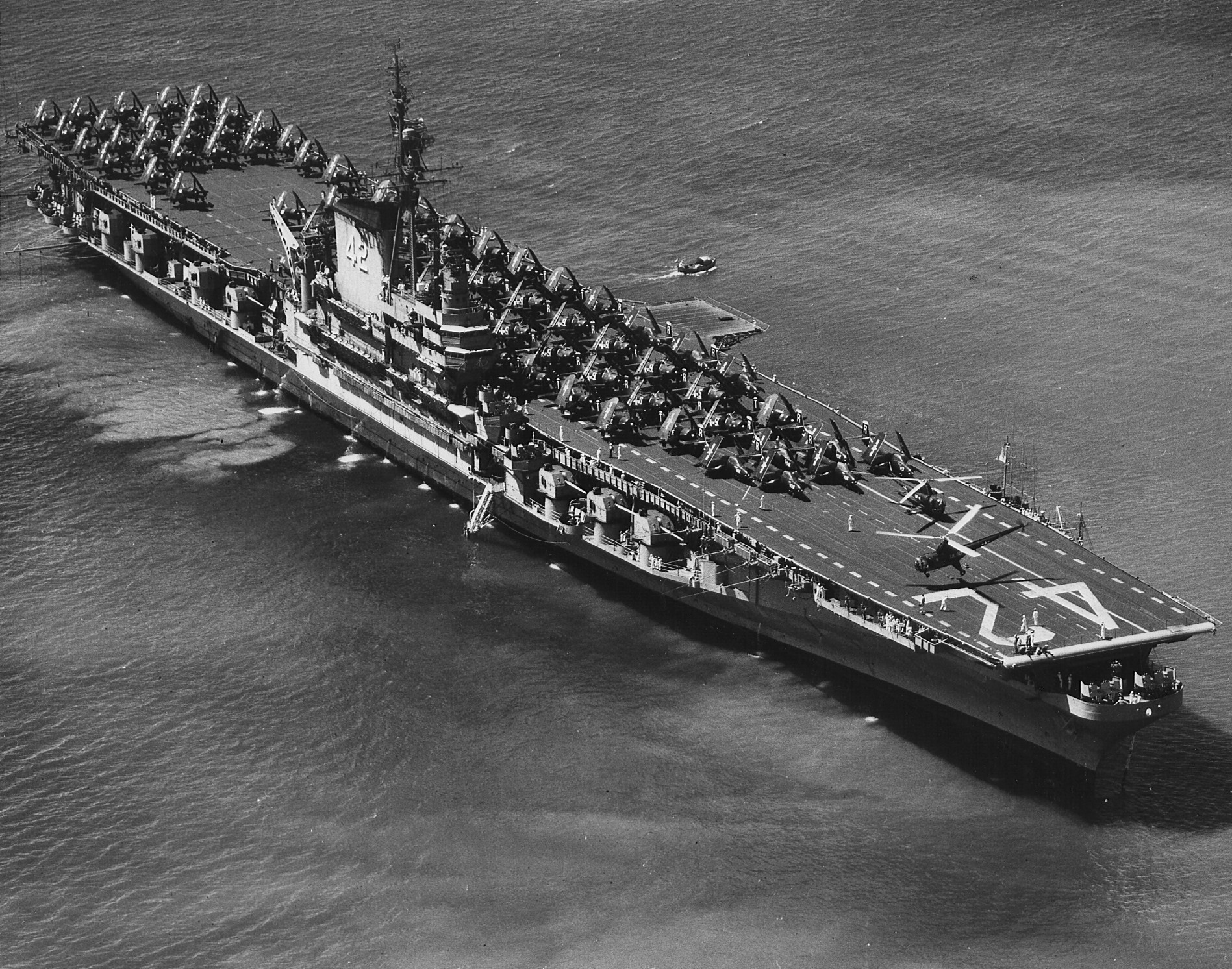 The U.S. aircraft carrier USS Franklin D. Roosevelt (CVB-42) pictured at anchor in Guantanamo Bay, Cuba, 22 March 1950. On deck are various aircraft of Carrier Air Group 17 (CVG-17), including McDonnell F2H-2 Banshee and Vought F4U-5 Corsair fighters, Douglas AD-4 Skyraider attack planes and two Sikorsky HO3S helicopters, of which one just took off.